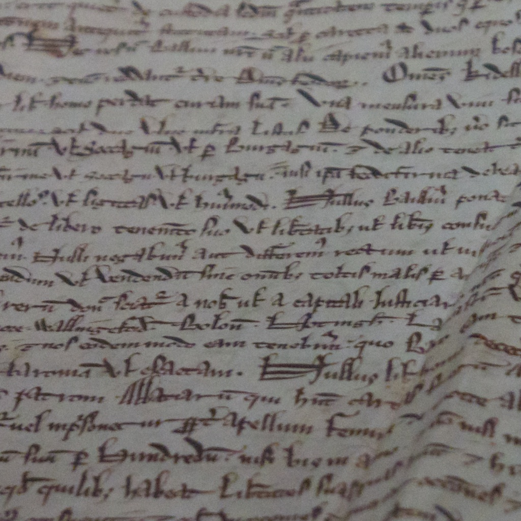 Magna Carta from Houston Museum of Natural Science